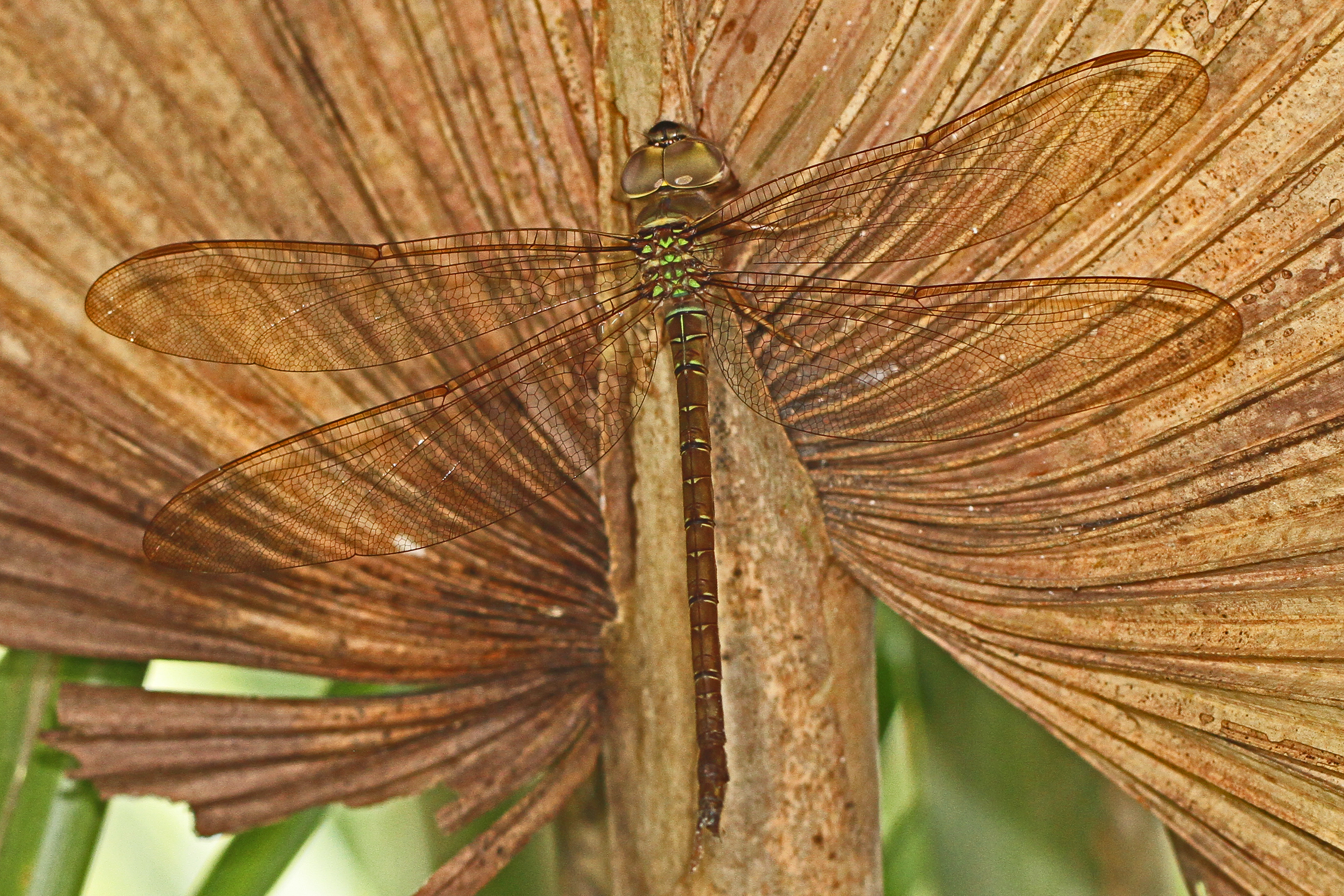 Twilight Darner - Gynacantha nervosa, Okaloacoochee Slough Wildlife Management Area, Immokalee, Florida